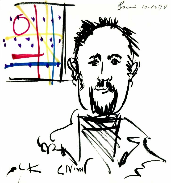 Drawing of Elyada Merioz by Yaakov Agam